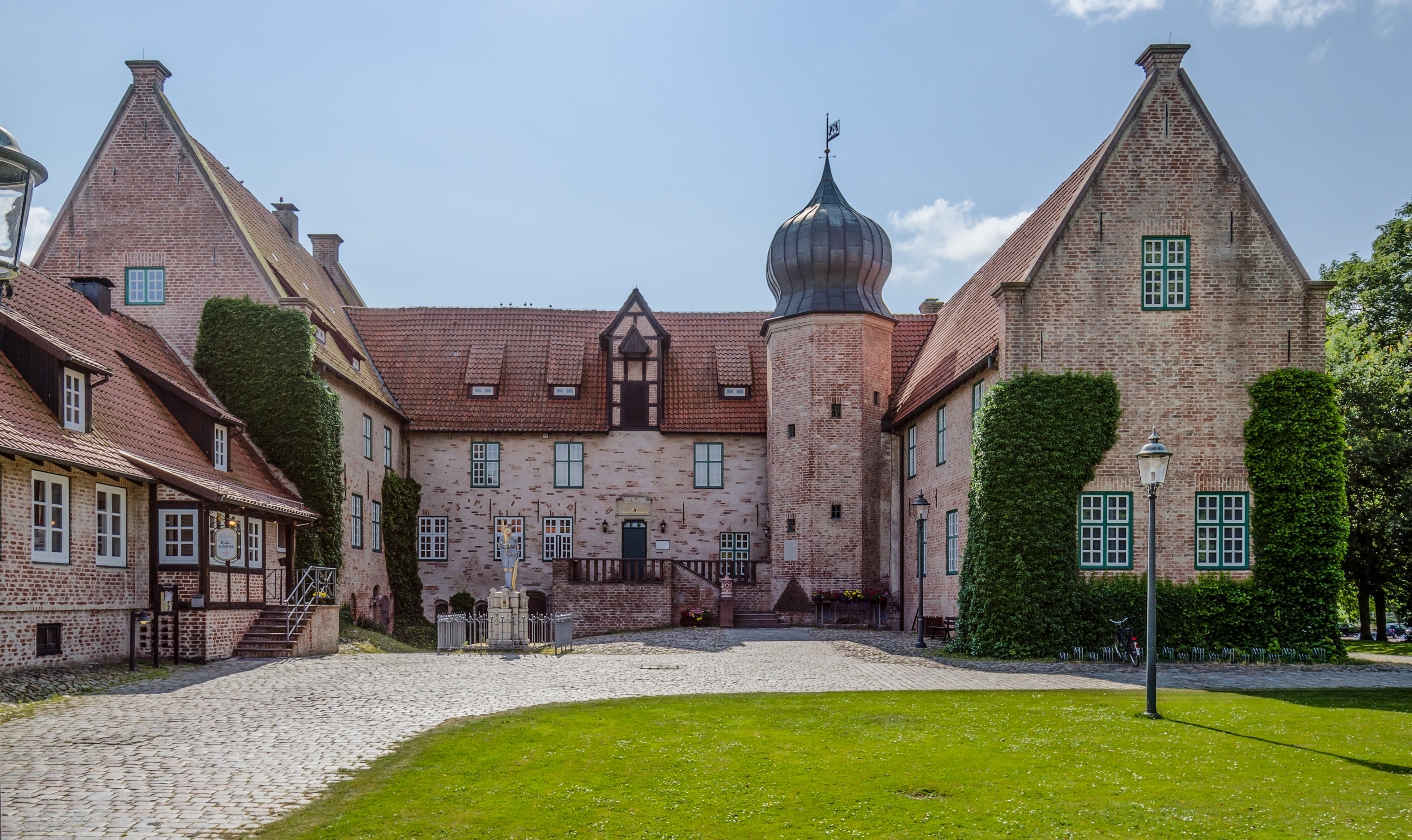 Bederkesa Castle east side